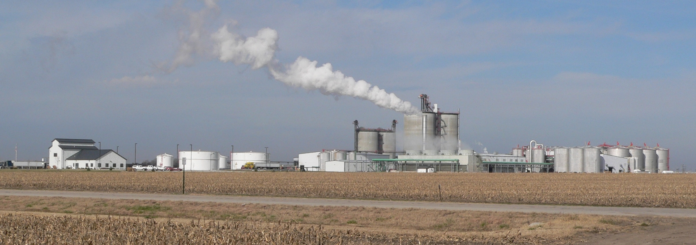 Advanced BioEnergy ethanol plant near Fairmont, Nebraska.